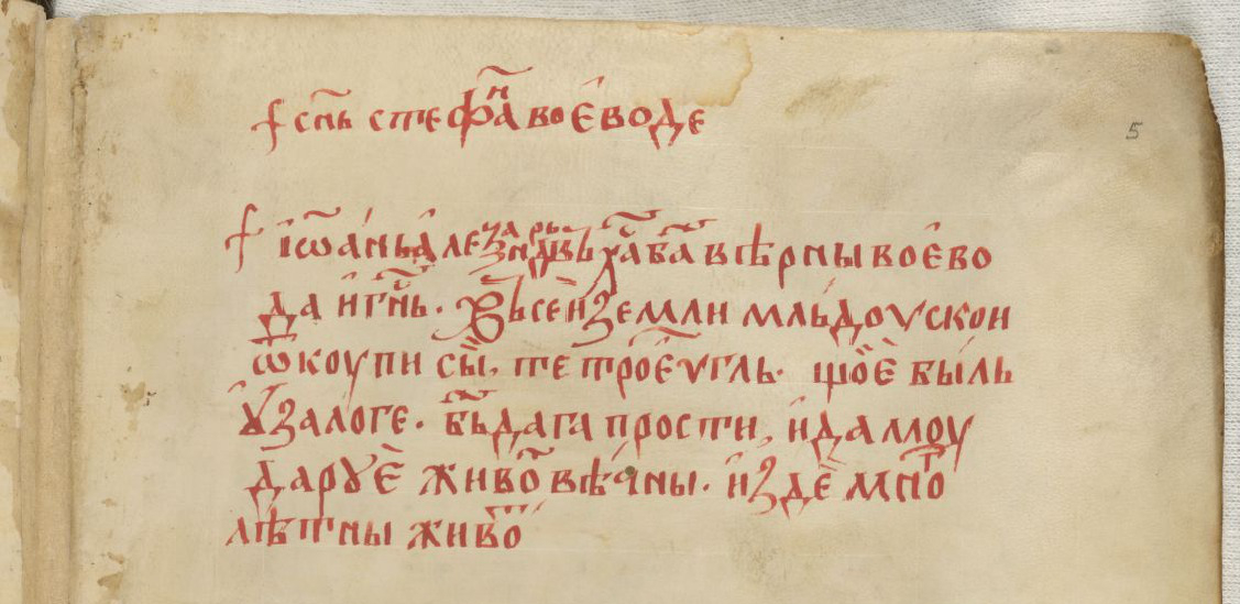 Slavonic note: „✝ The son of Voivod Stefan, ✝ Ivan Alexander, in Christ God faithful Voivod and ruler of the whole land of Moldavia, bought the Gospels which had been deposited in pledge. Let God have mercy upon him and grant him eternal life, as well as long life here.”